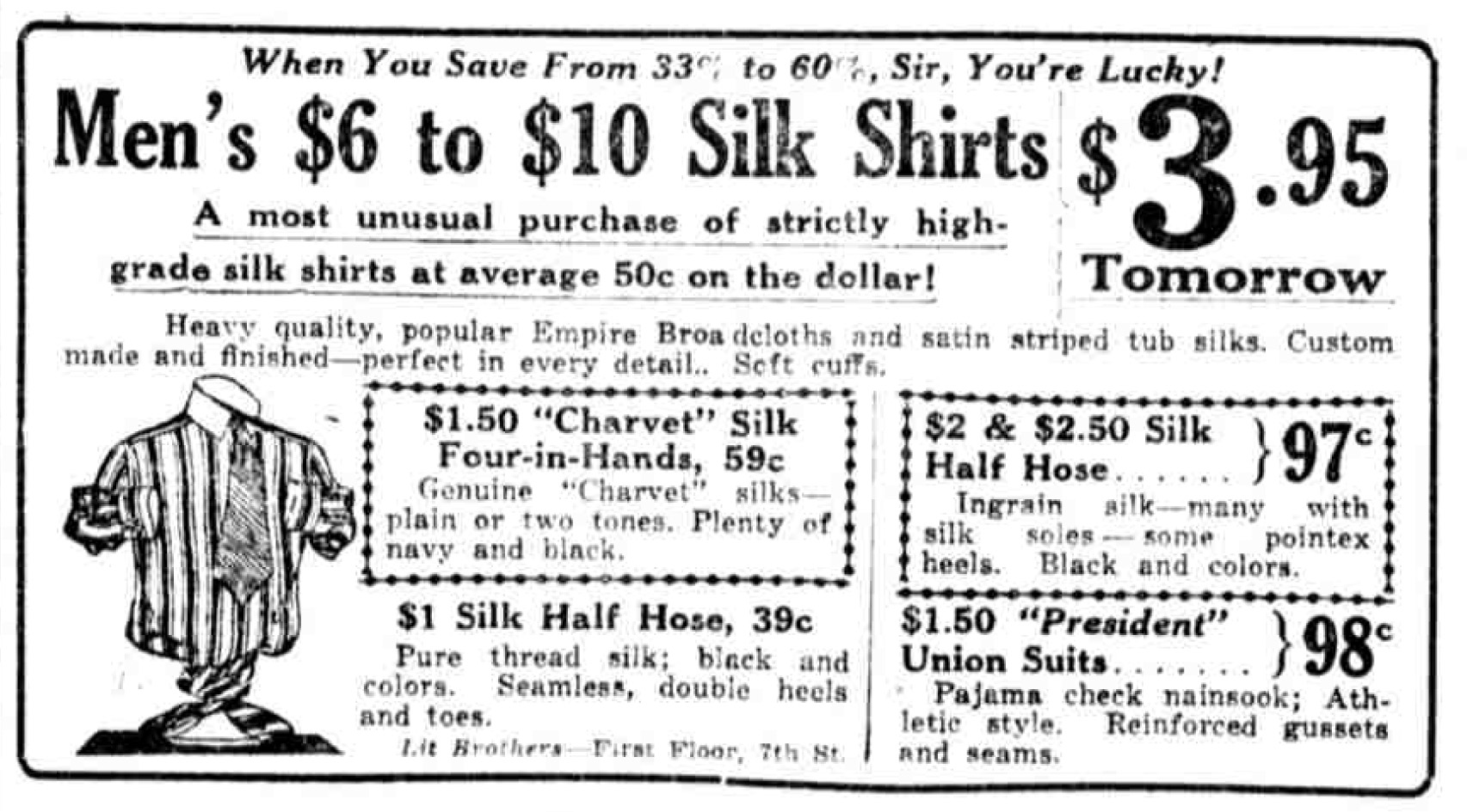 Advertisement for the store Lit Brothers in The Evening Public Ledger (Philadelphia)